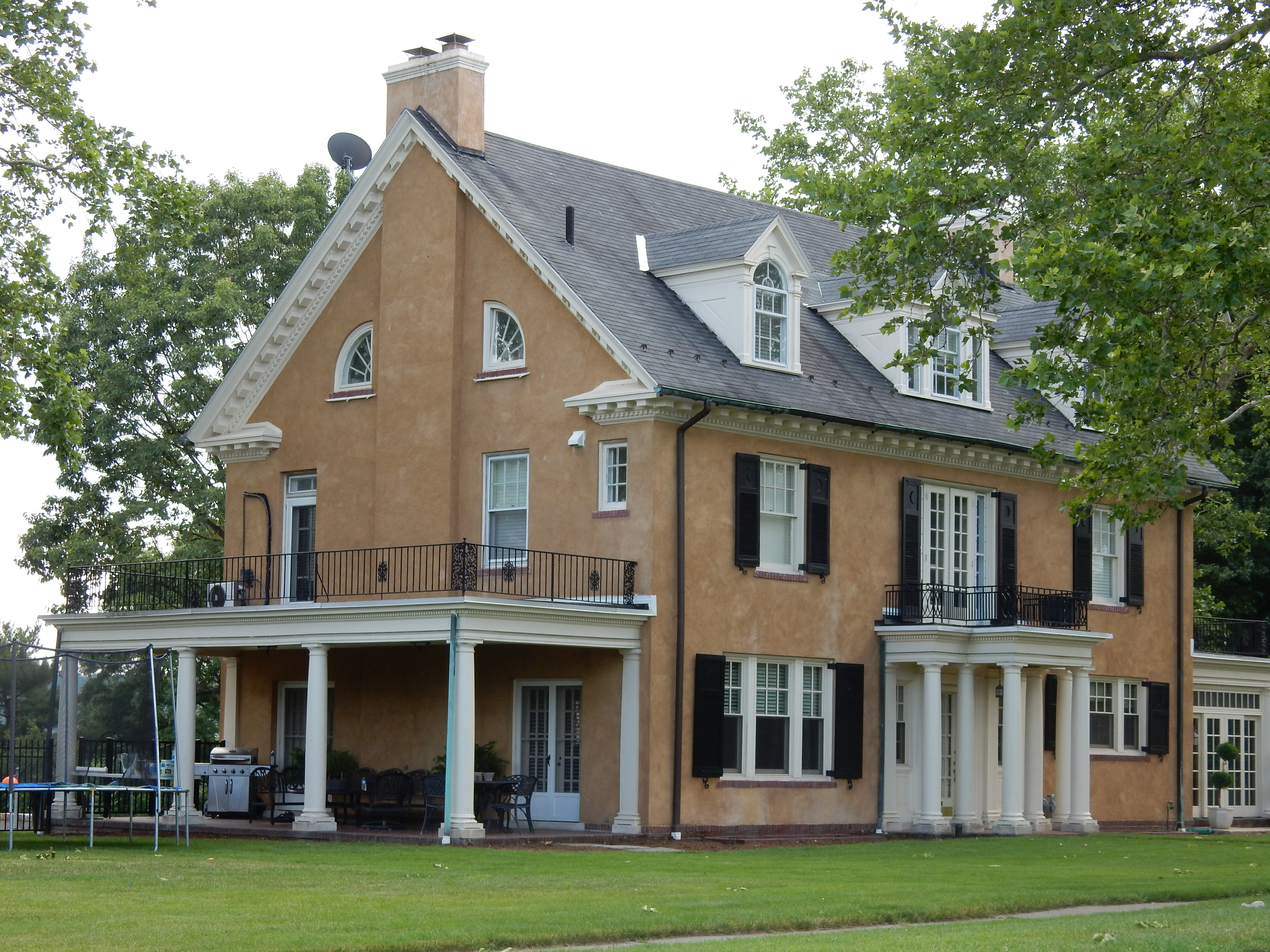 78 Grandview Blvd. in Wyomissing, PA. Built in 1929. Taylor Swift’s Childhood Home where her family lived for 10 years. It was later renovated after 2007 (previously it was white).